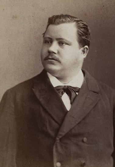 Portrait of the Swiss explorer Josua Zweifel